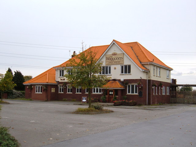 The Waggoners, Wawne, East Riding of Yorkshire, England.